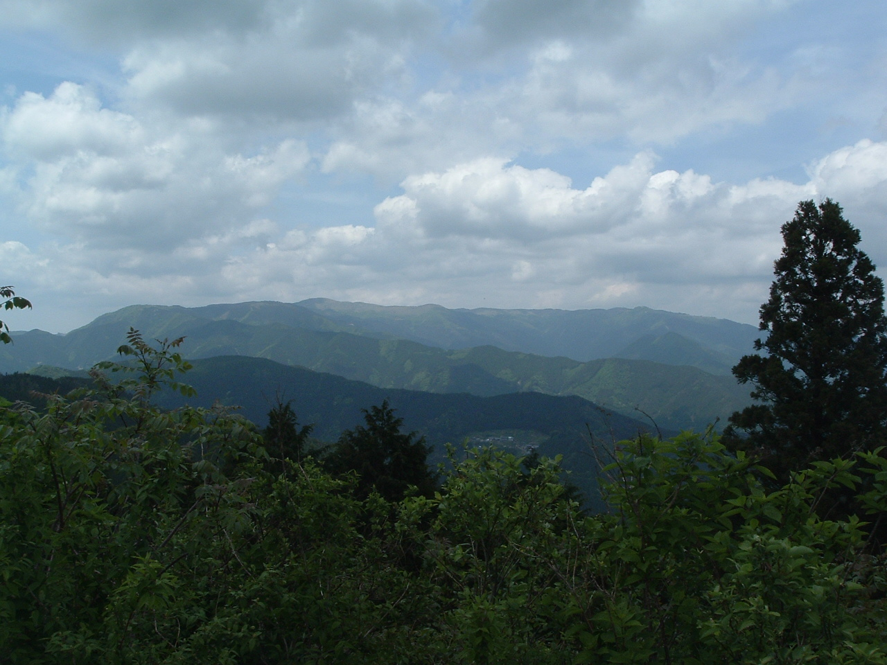 Mt.Kasatori (Kasatori-yama) as seen from the south. Taken from Jiyoshi Pass.